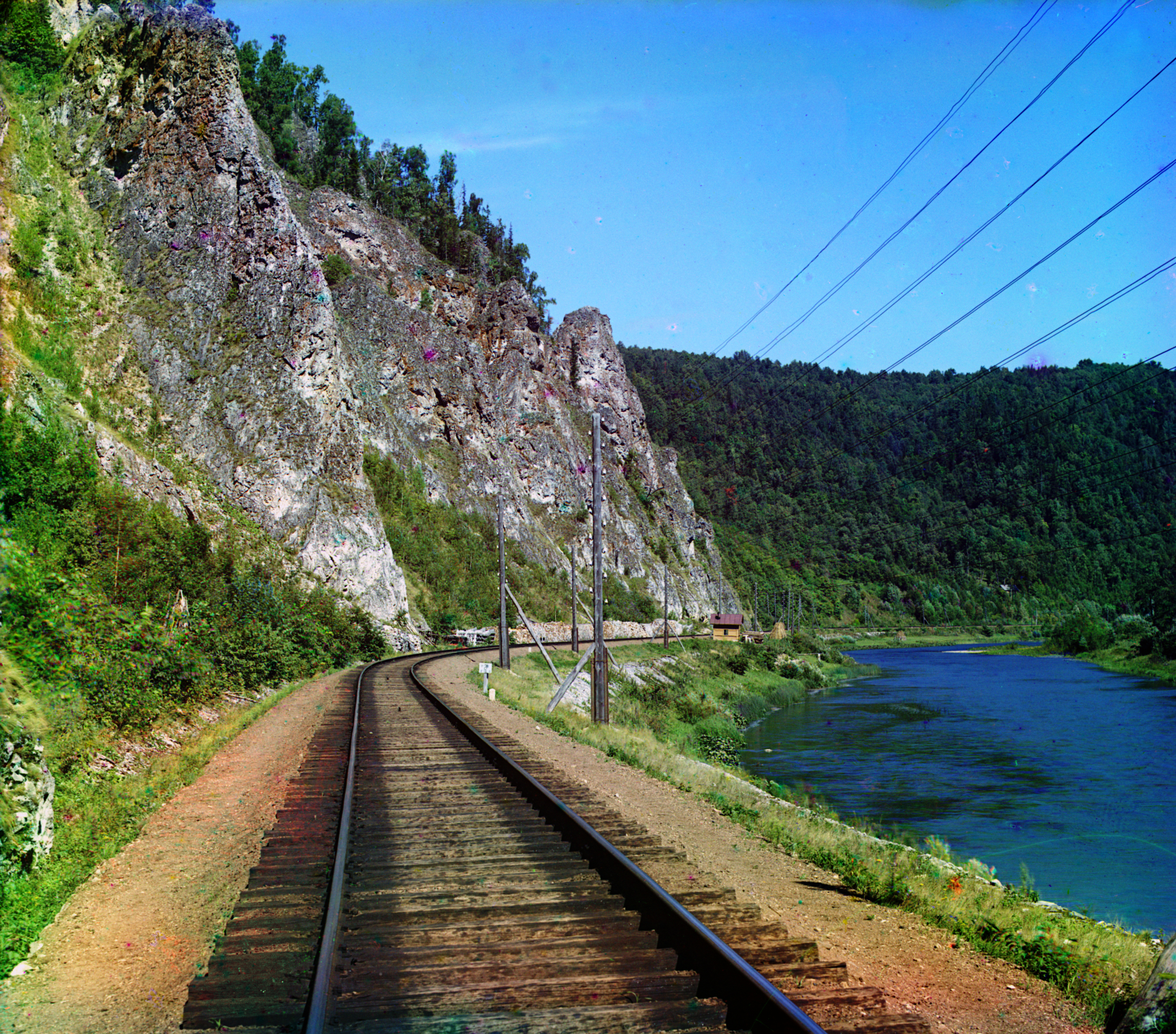 On the Sim River